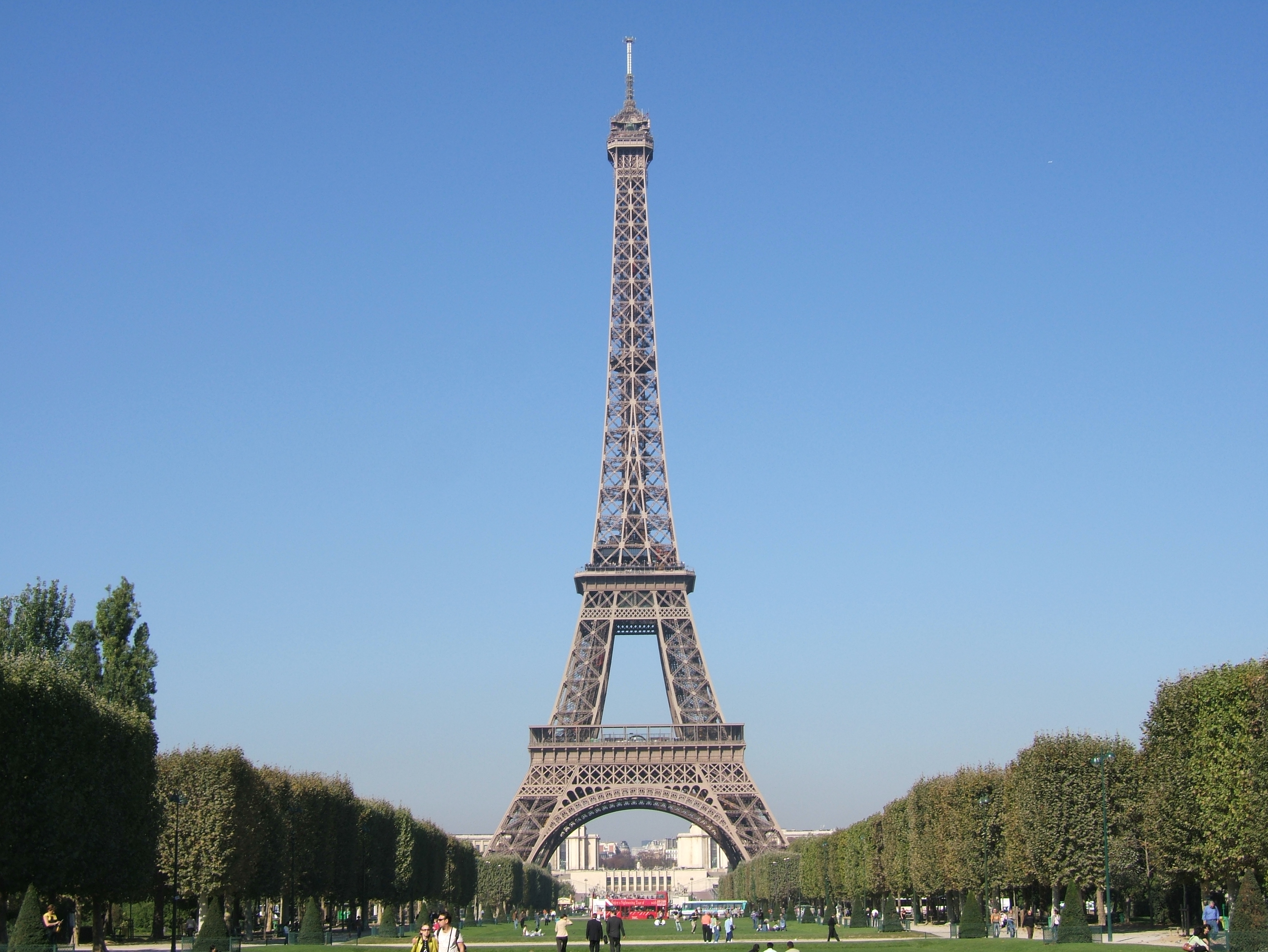 The Eiffel Tower as seen from the Champ-de-Mars.